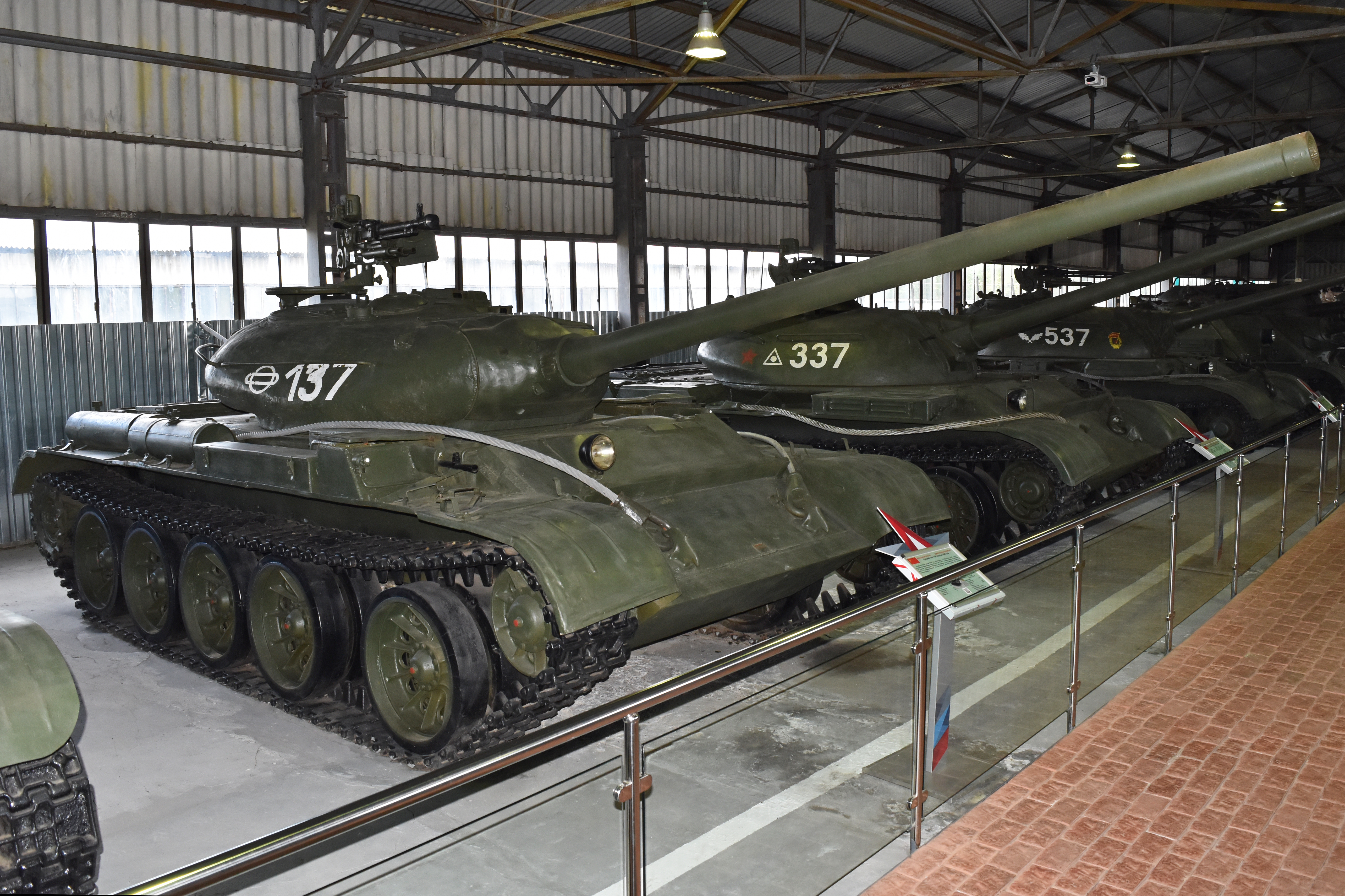 Designer:- KMDB Design No:- Obeikt 137 (Object 137) Manufacturer:- Kharkiv Factory (KhPZ) Built:- 1947 Total T-54 Production:- 35,000 In Service:- 1949 to present (all models) Main Armament:- 100mm D-10T rifled gun. The legendary T-54/T-55 series went on to become the most produced tank in history and remains in service today. The T-54 was mass produced (and therefore relatively cheap), and was a good, well balanced tank which was sturdy, dependable and easy to operate. This is an early Model 1946 which still had many features from the T-44 it was intended to replace. On display in what is best known as Hall 2 of the Kubinka Tank Museum, although its official title is now Pavilion 2 in Area 2 of the Park Patriot museum. Kubinka, Moscow Oblast, Russia. 24th August 2017.